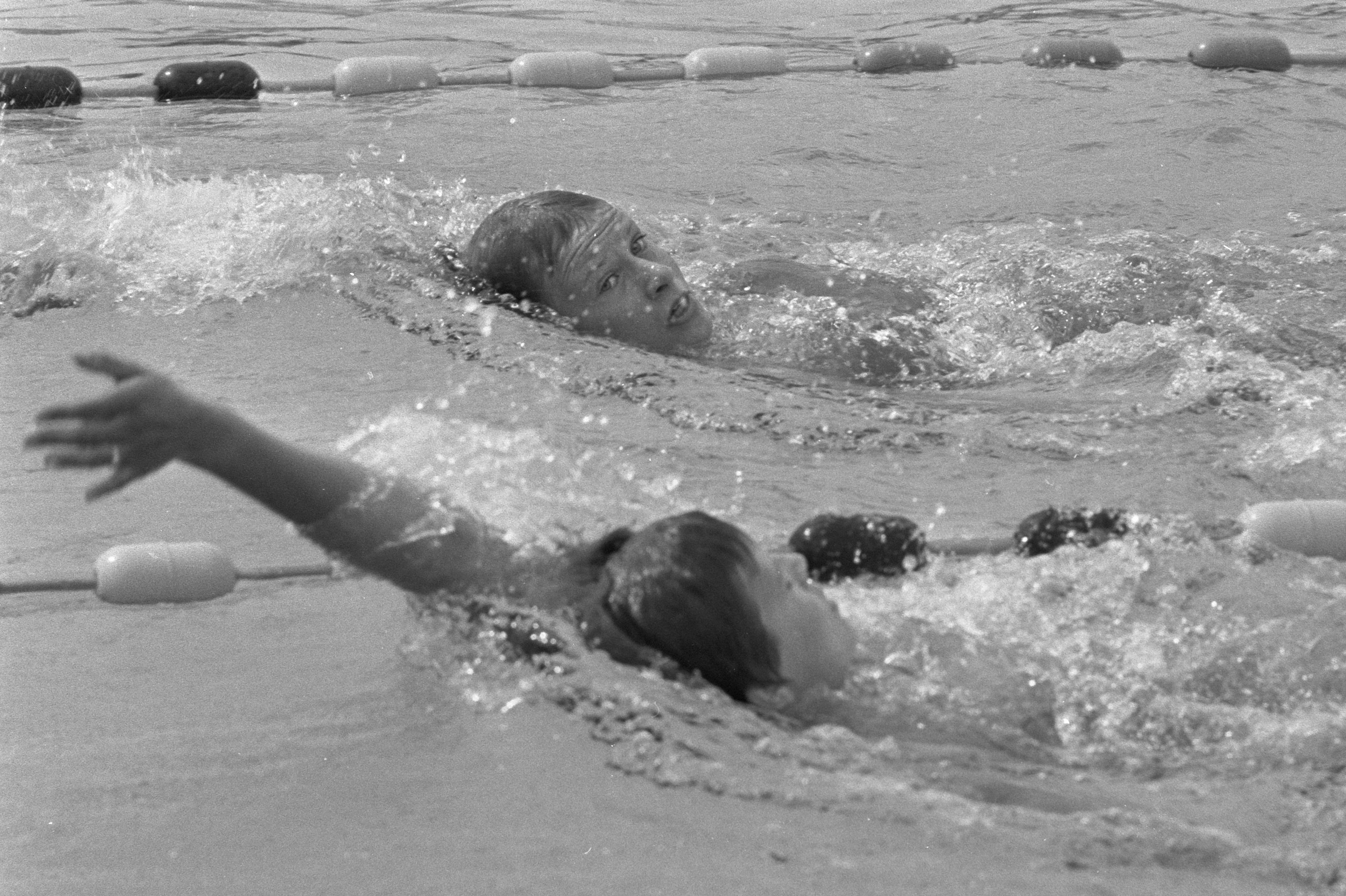 Wilma van Beek and Linda de Boer (in background) at national championships